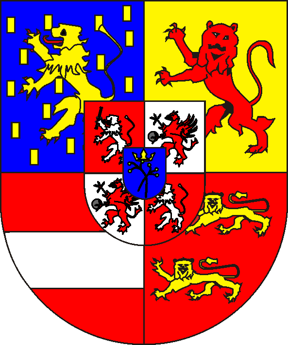 coats of arms of the count of Nassau-Schaumburg 1: county of Nassau; 2: county of Katzenelnbogen; 3: county of Vianden; 4: county of Diez; heart: county of Holzapfel-Schaumburg